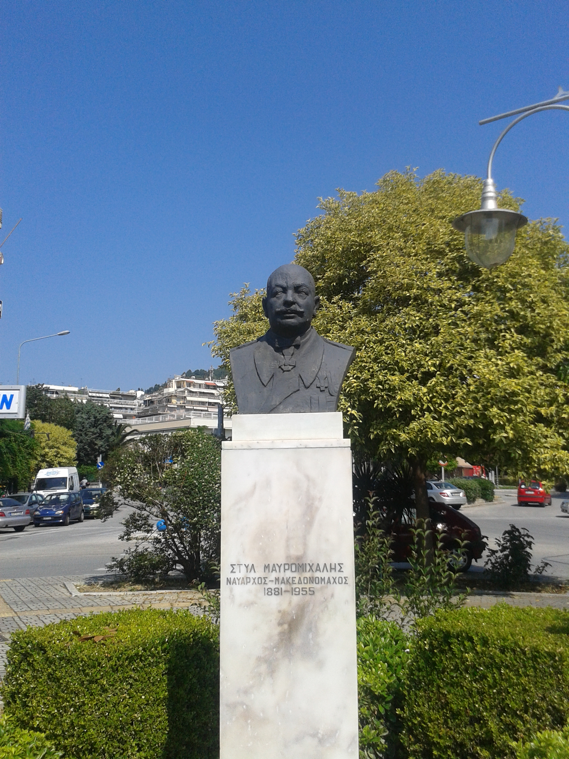 Bust of Stylianos Mavromihalis Bust in Kavala.